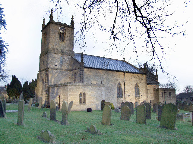 Christ Church parish church, Dore, Sheffield, South Yorkshire, seen from the southwest